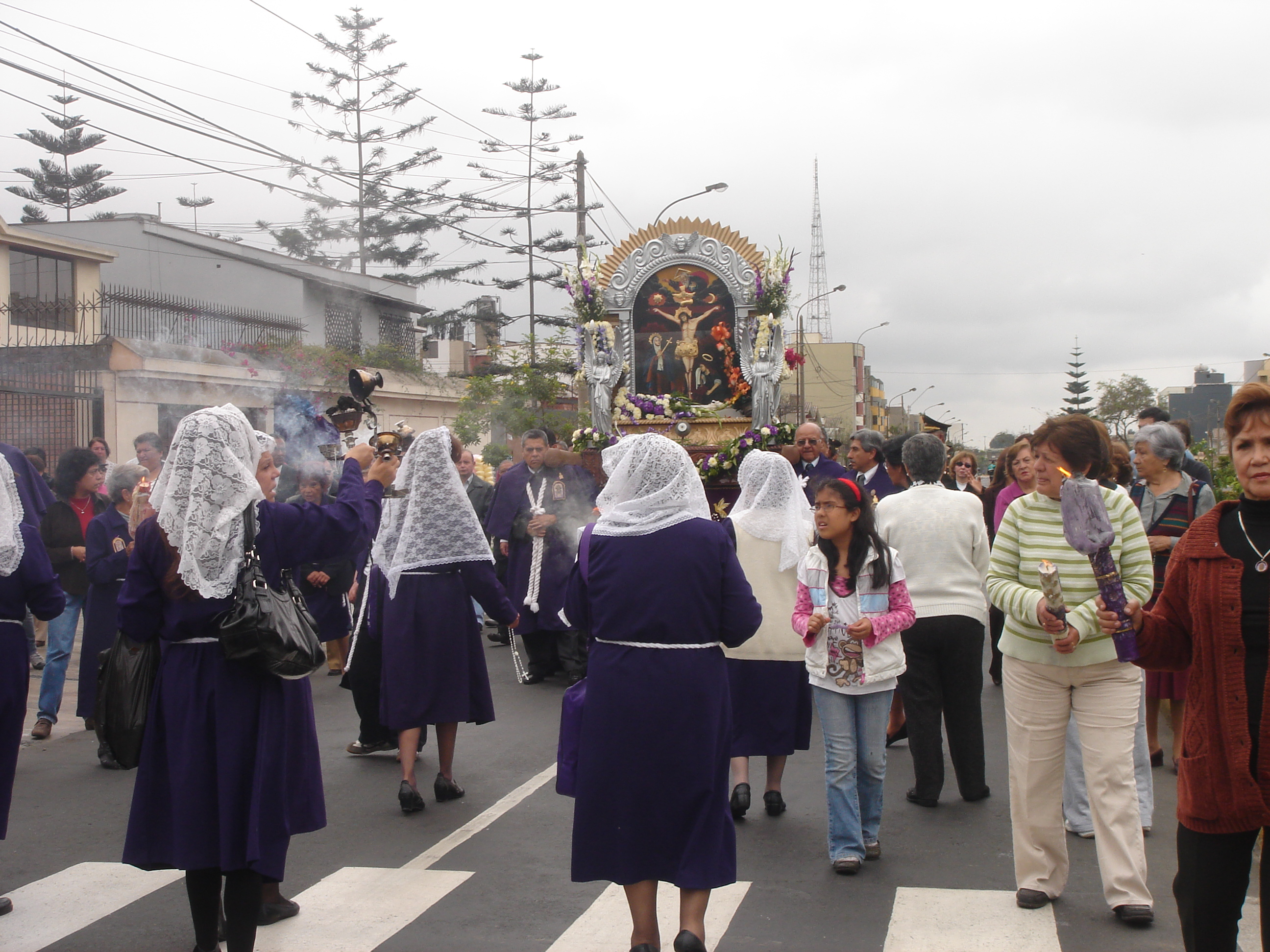 Procession of Lord of Miracles of St.Leopold Church in San Borja District, Lima-Peru.